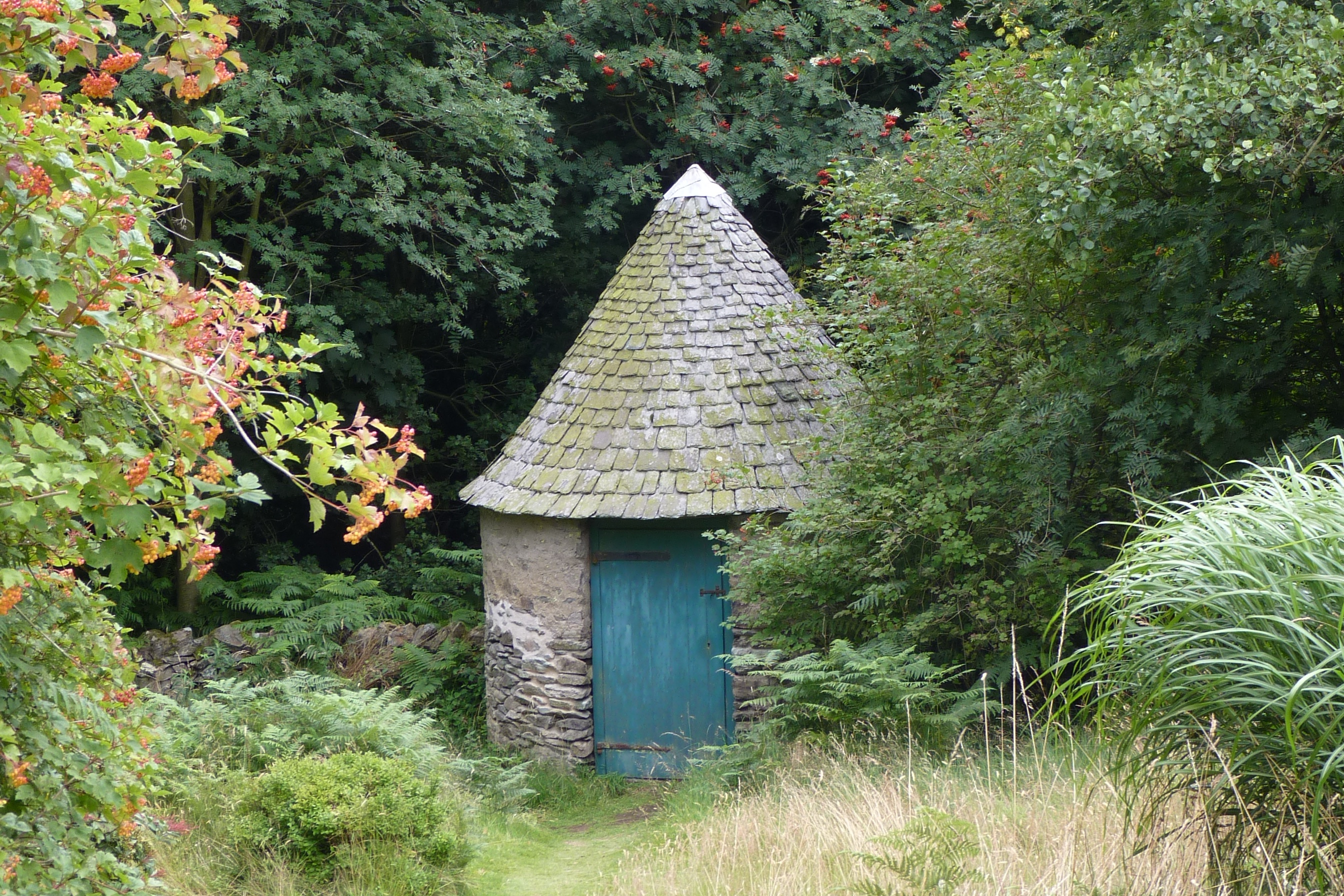 Small slate-roofed well house in the garden at Stoneywell, Earnest Gimson's Arts and Craft House (1899) in Charnwood Forest, now a National Trust property.